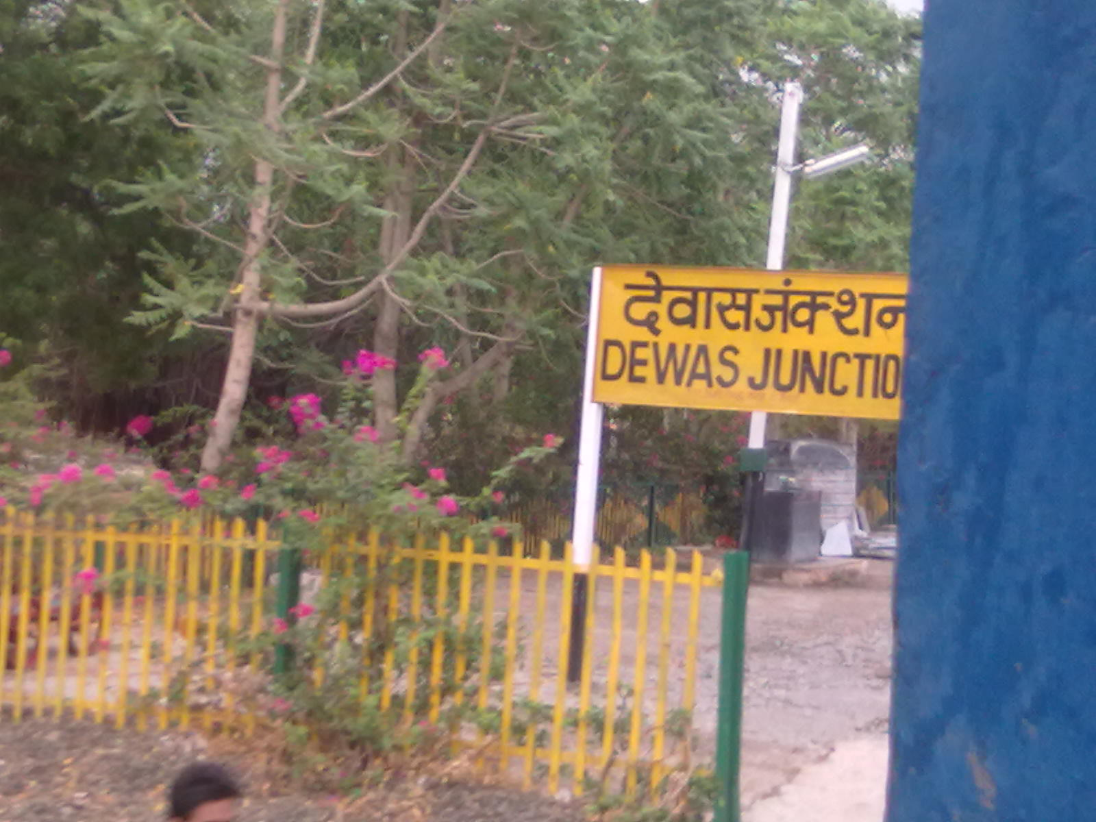 sign board